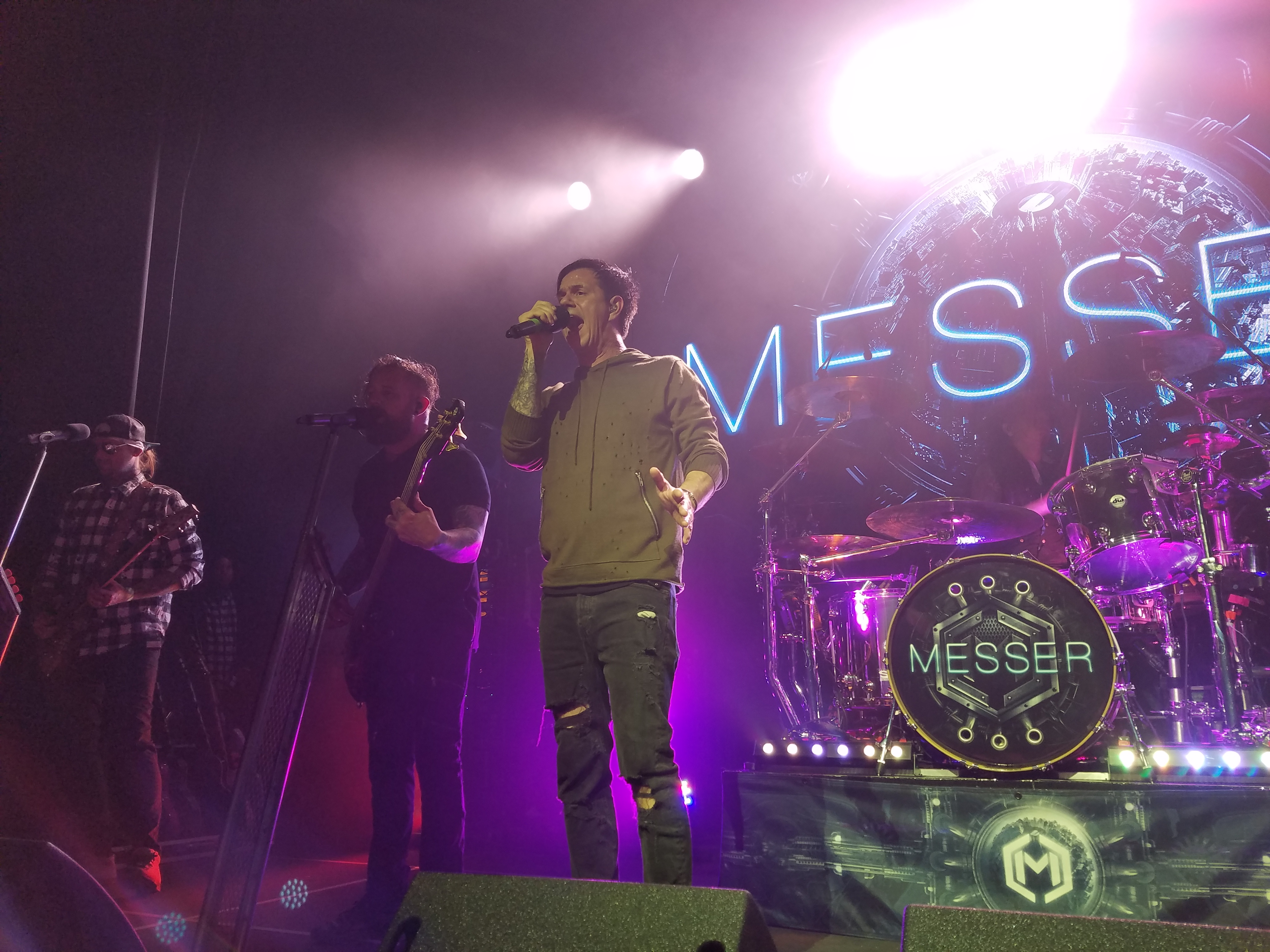 American rock band Messer from Dallas, Texas performing in 2017